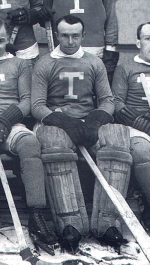 Hap Holmes, playing for the Toronto Arenas in 1917